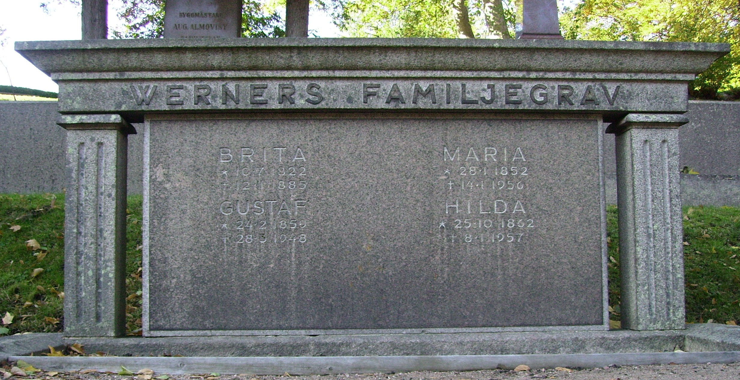 Picture of Gustaf Werner's grave at Östra kyrkogården in Göteborg